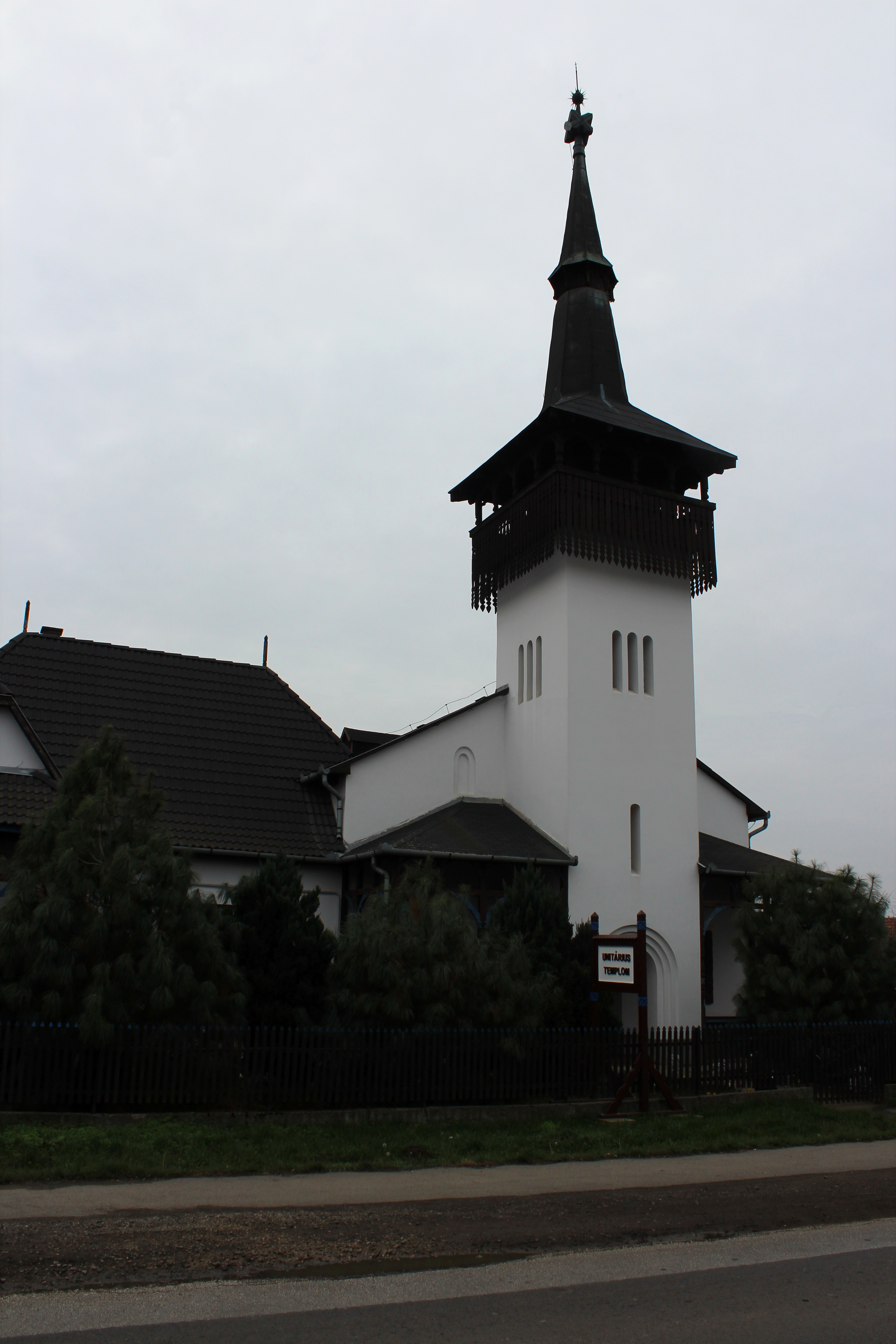 Unitarian church in Kocsord, Hungary This is a photo of a monument in Hungary, Identifier: 8281